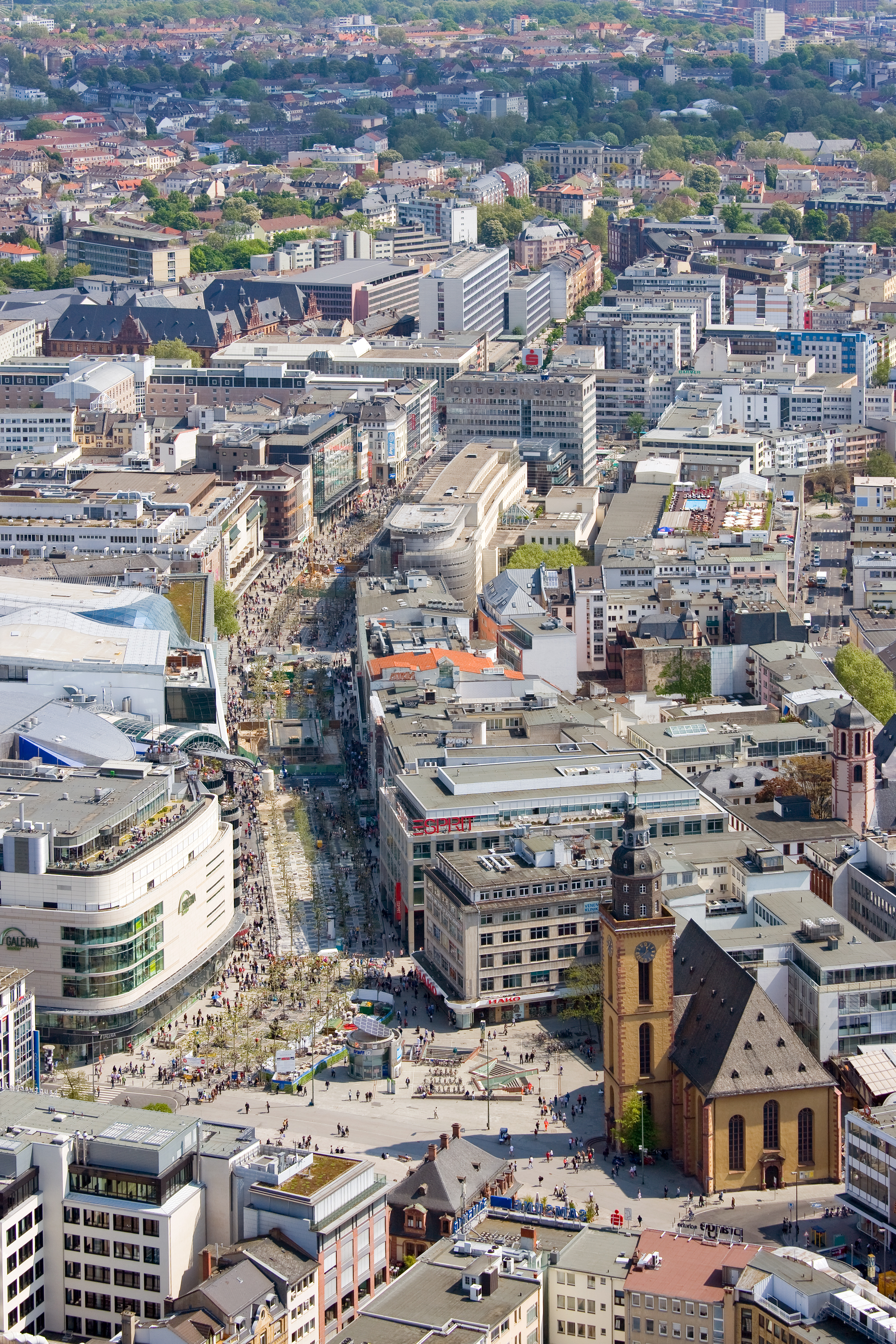 Frankfurt on the Main: Zeil as seen from the Maintower